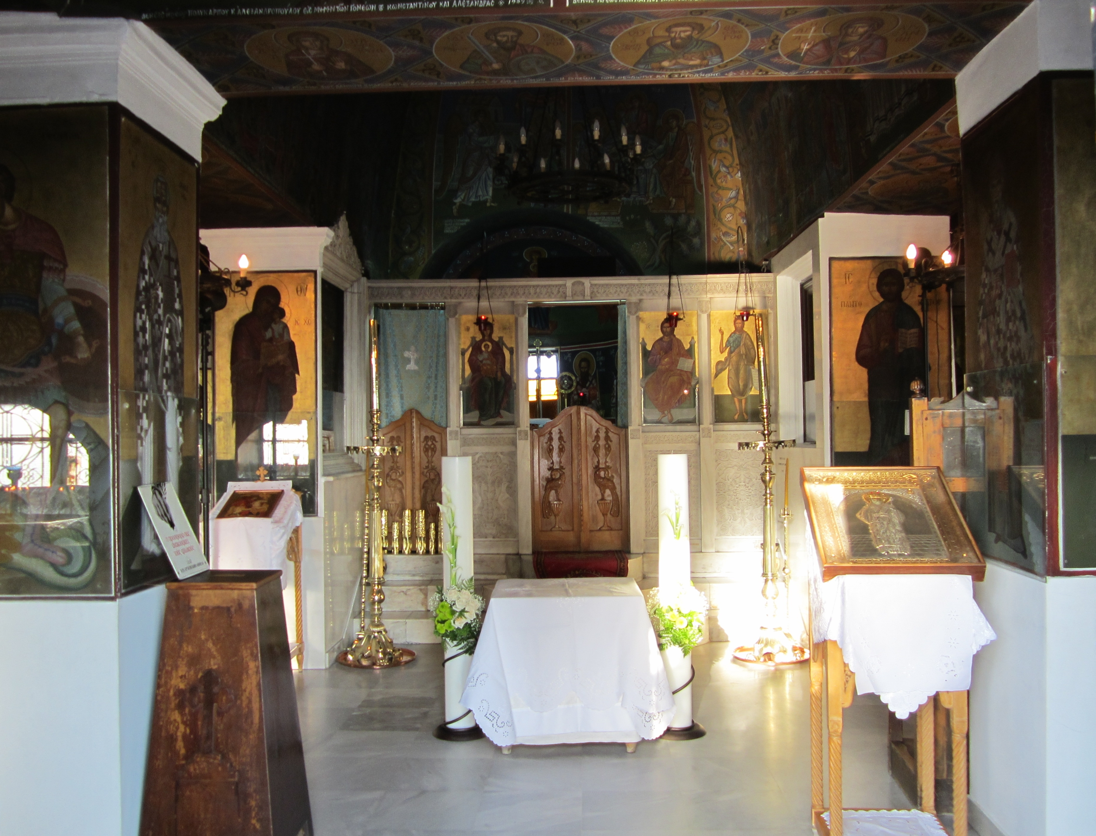 Saint George Chapel, Lycabettus, interior.